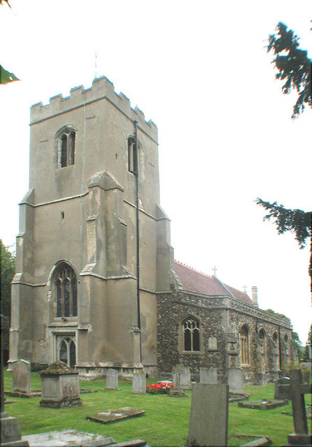 St Mary & St Andrew, Grantchester, Cambridgeshire